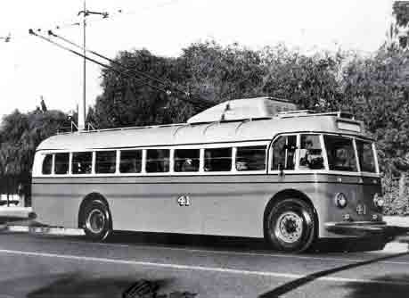 A front three-quarter view of trolleybus number 41 in Perth, Western Australia. No. 41 was a Sunbeam model F4 trolleybus.